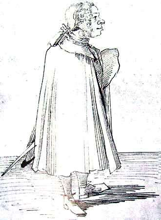 Caricature of the Italian castrato opera singer Giacinto Fontana, known as "Farfallino"